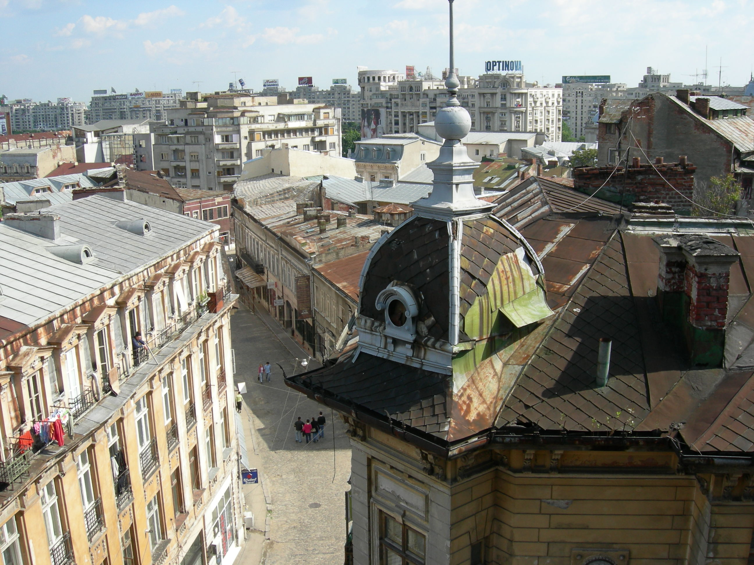 Rooftops in Lipscani, Bucharest, Romania. View is looking roughly south on Str. Smârdan from the sixth-floor Saijo Go Club toward the Romanian National Bank. In the background, across the Damboviţa River is the Centru Civic.